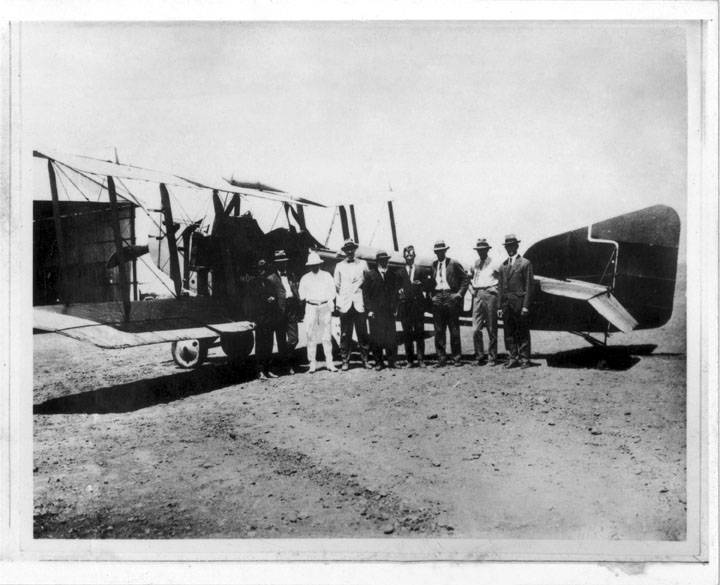 Arrival at Longreach of the Armstrong Whitworth FK8, with the first bag of air mail, on the inaugural flight of the first Qantas air service from Charleville to Cloncurry. (Pilot PJ McGinnis (fourth from right); Engineer WA Baird, far left; Alexander Kennedy, first passenger, centre; Hudson Fysh second from right; Sir Fergus McMaster Qantas Chairman of Directors third from right; Dr Michod in white.)